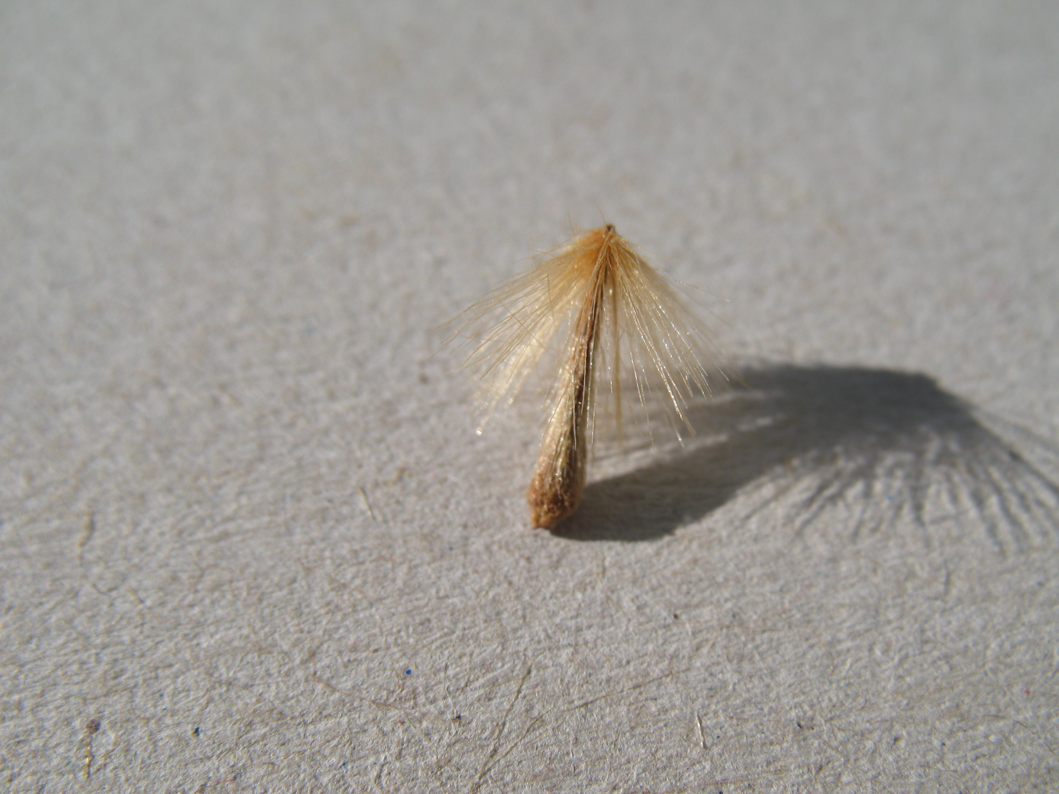 The seed of Platanus.